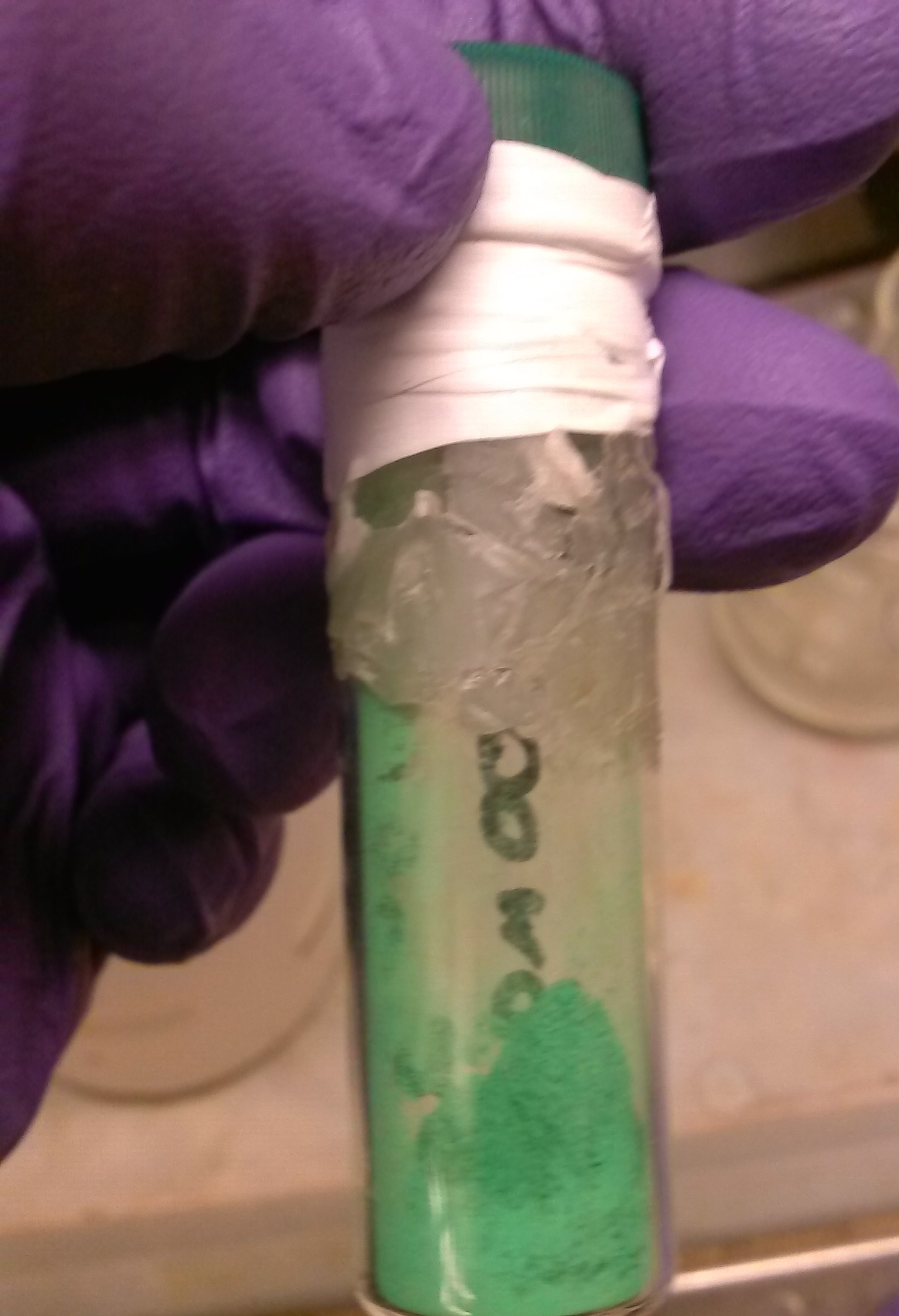 Anhydrous cobalt(II) bromide in a vial